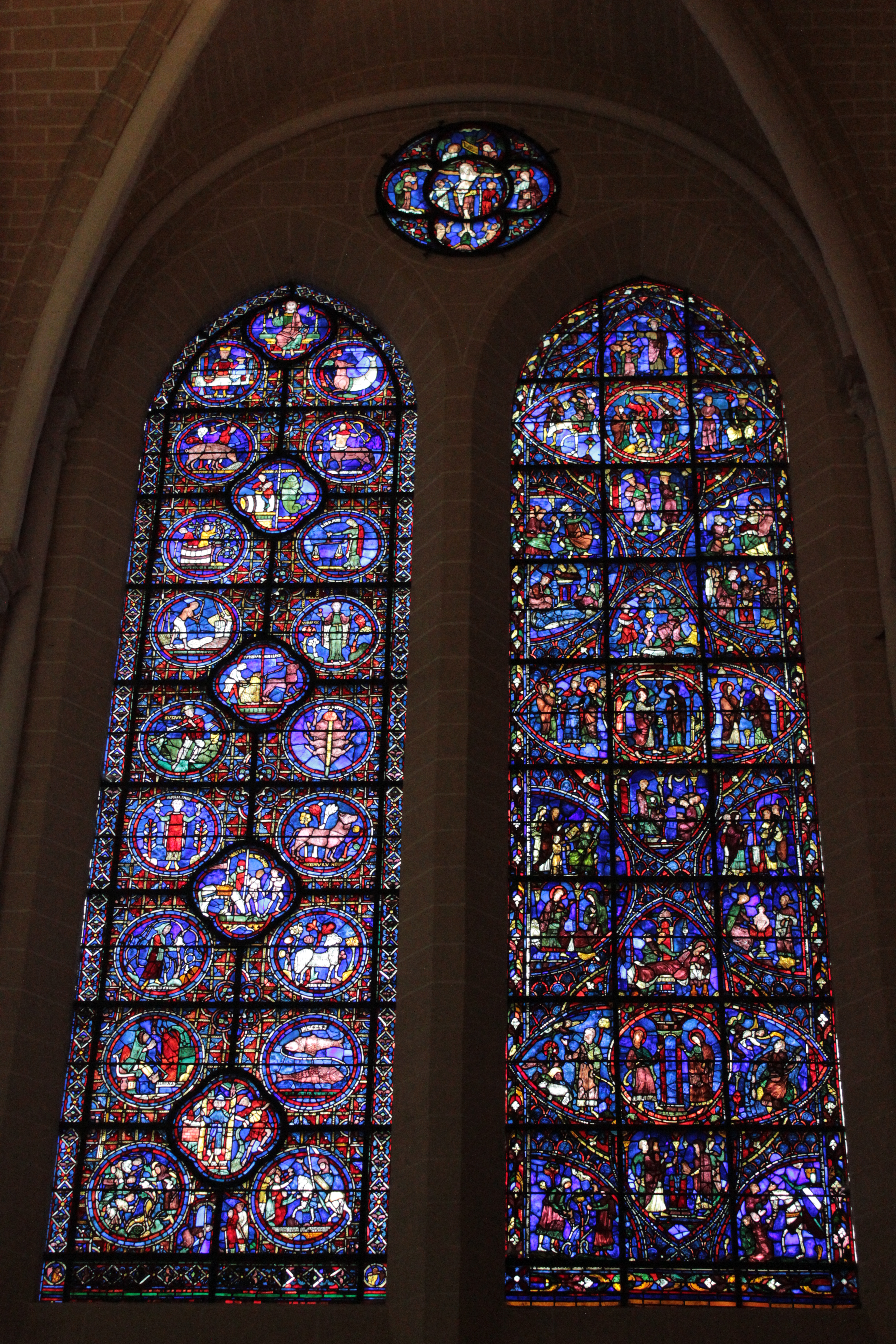 Vitrail de Chartre